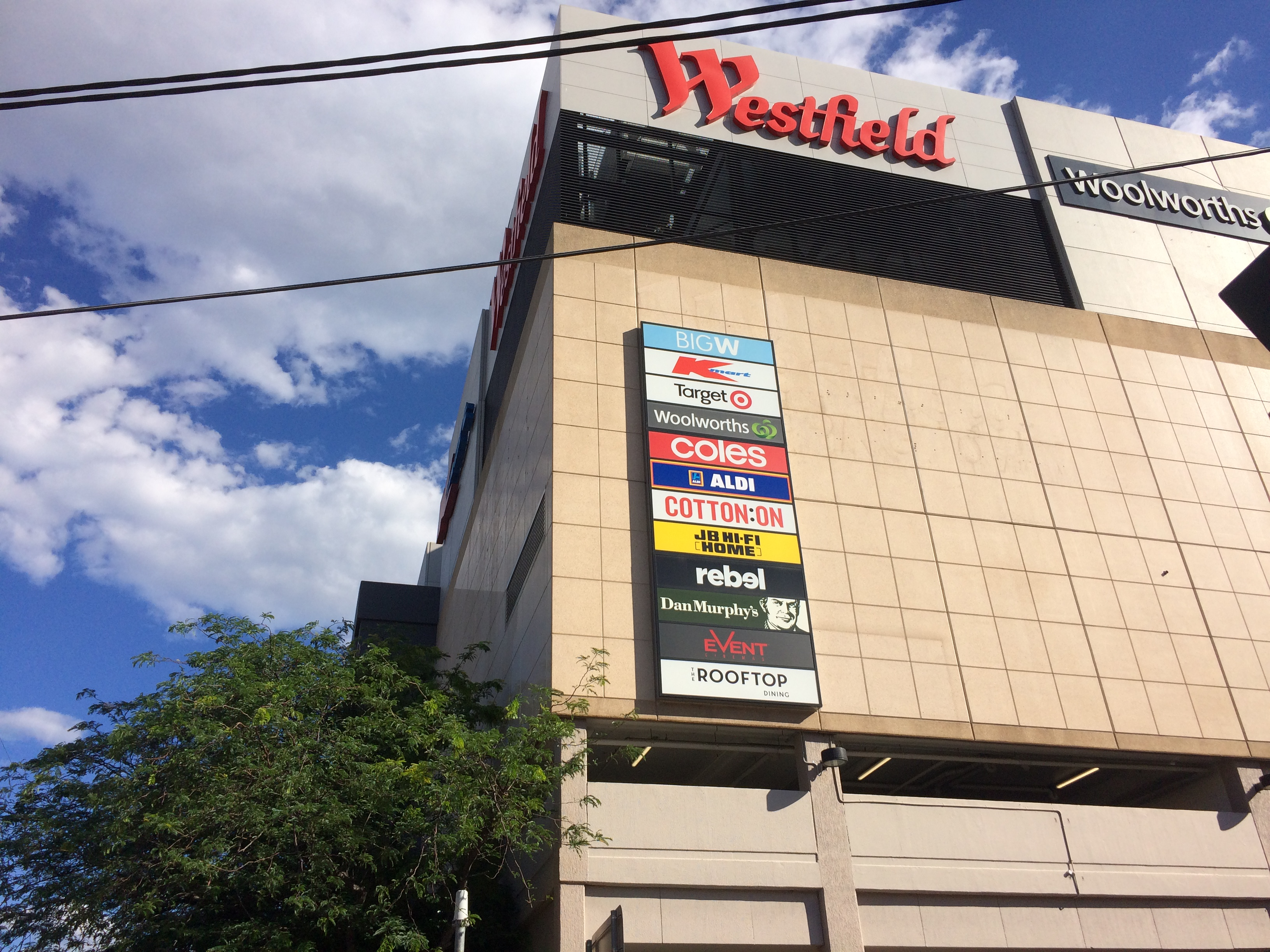 Photo of Westfield Hurstville on 23 November 2018